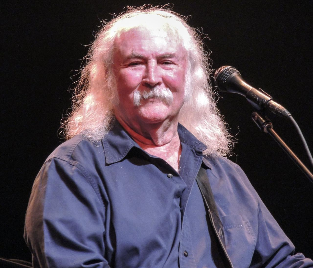 Crosby, Stills & Nash!